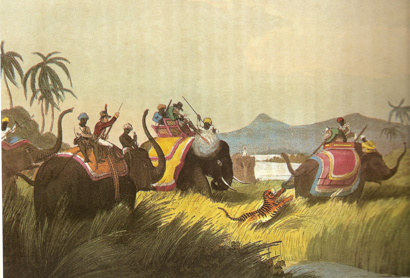 Surprise Appearance of a Tiger